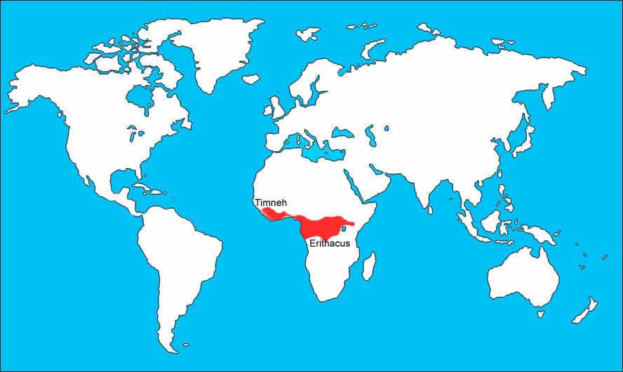 Range map for (Psittacus erithacus) African Grey Parrot.